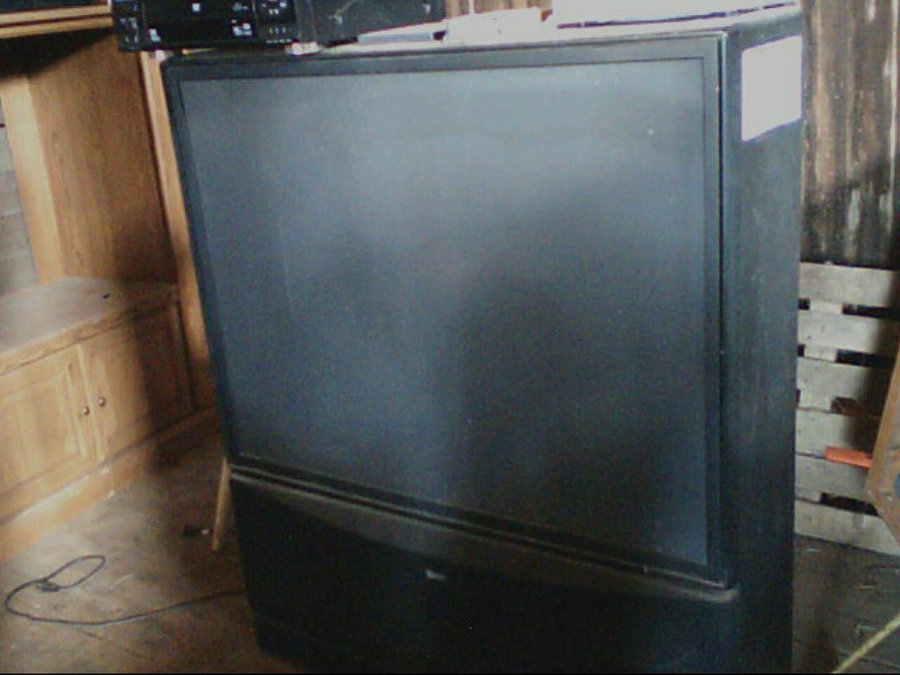 Zenith rear-projecton TV